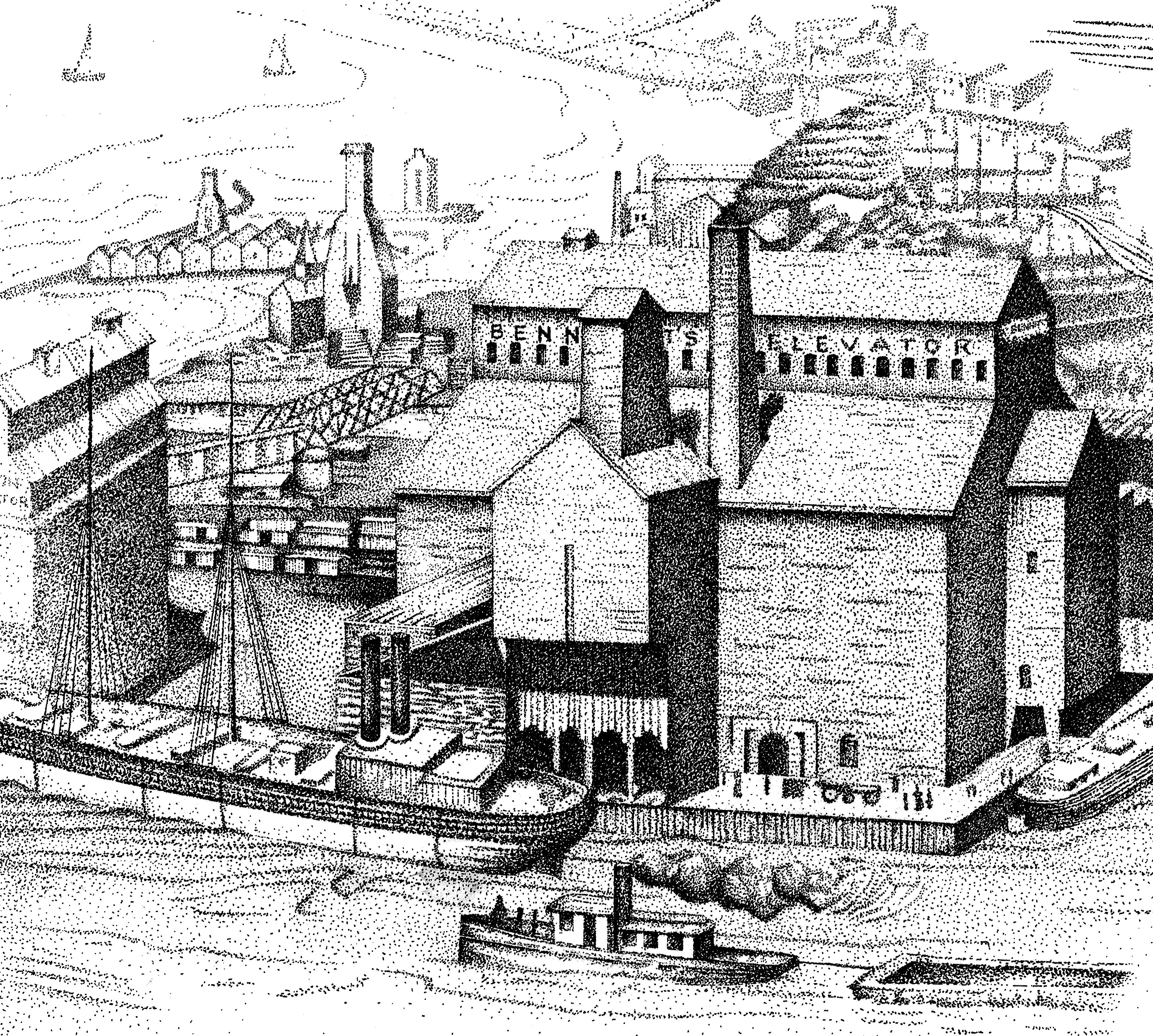 Grain elevator sketch of 19th century - Buffalo, New York